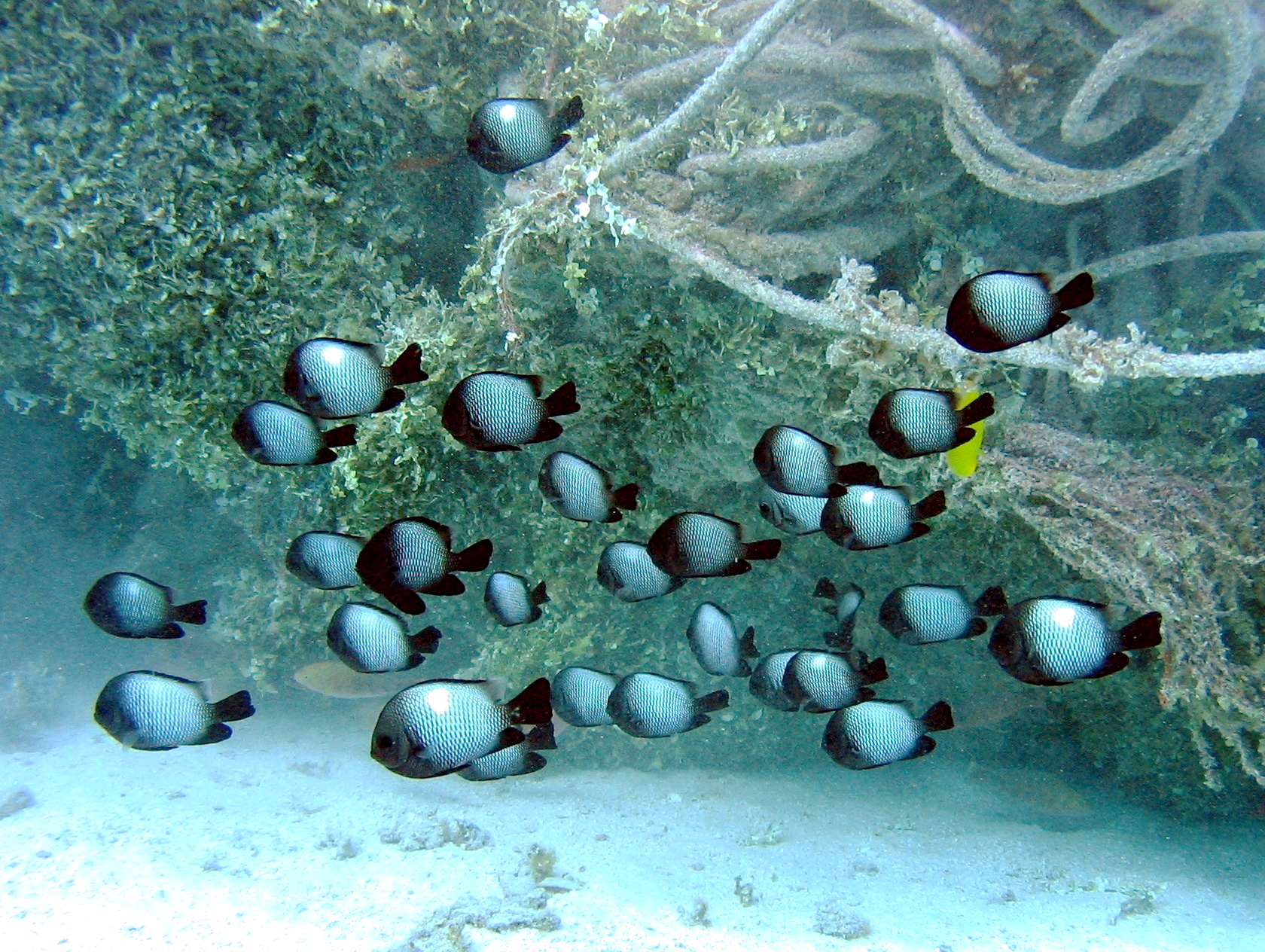 Hawaiian domino damselfish (Dascyllus albisella) Image ID: reef0738, NOAA's Coral Kingdom Collection Location: Northwest Hawaiian Islands